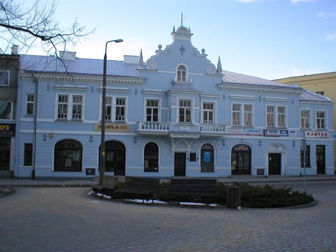 Ciechanów - Brudnicki's house